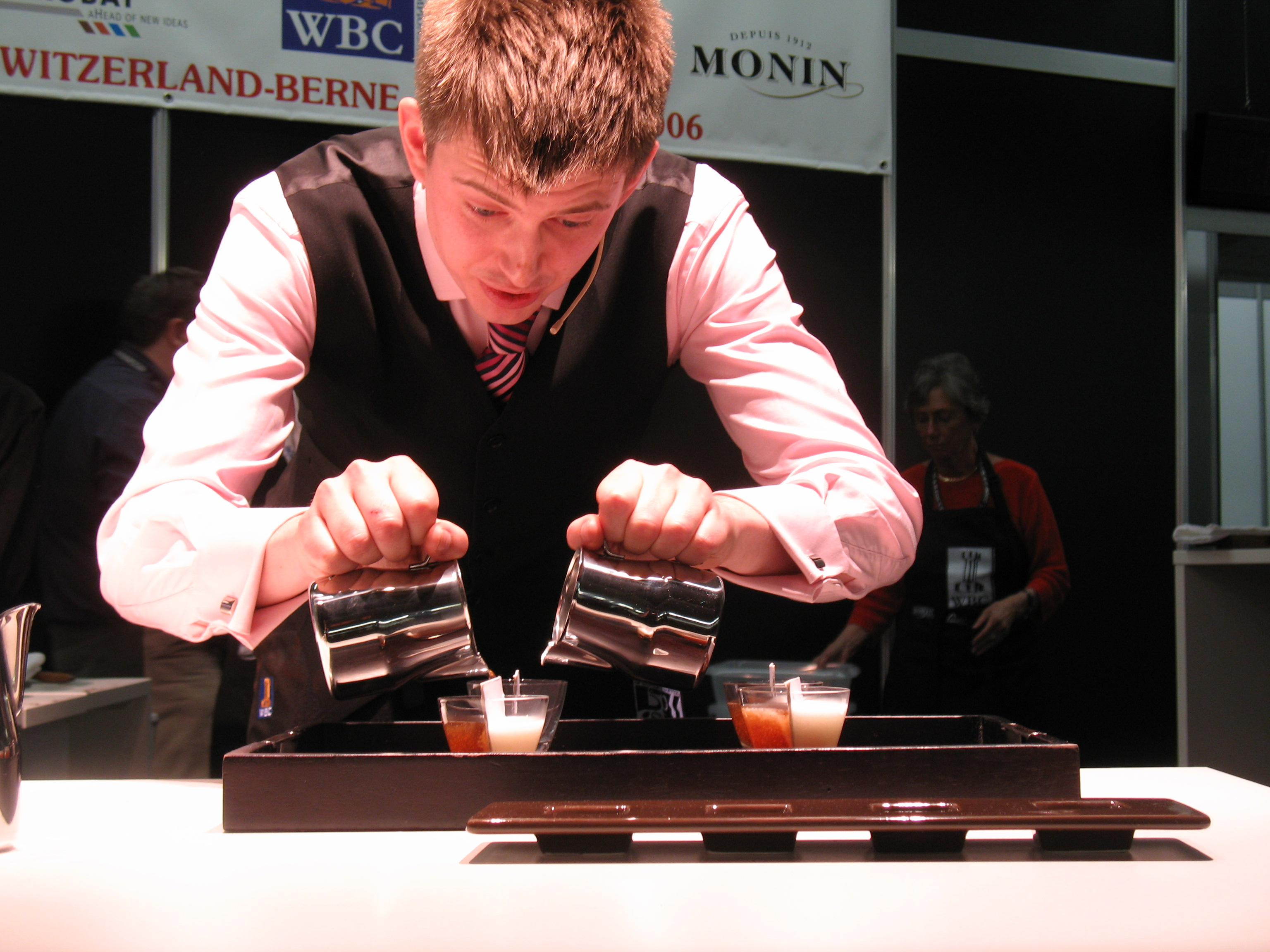 Participant at the World Barista Championship.